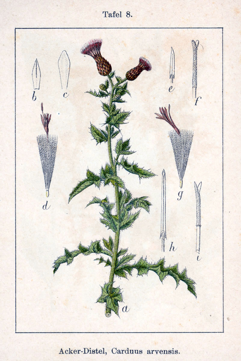 Cirsium arvense (L.) Scop., syn. Carduus arvensis (L.) Robson Original Description "Acker-Distel", Carduus arvensis